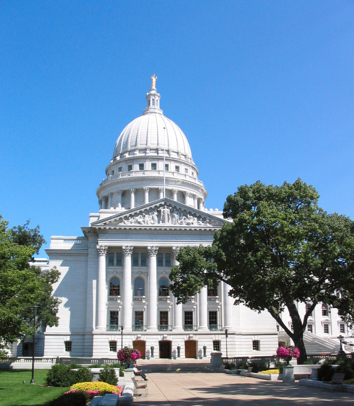 The state capitol of Madison, Wisconsin